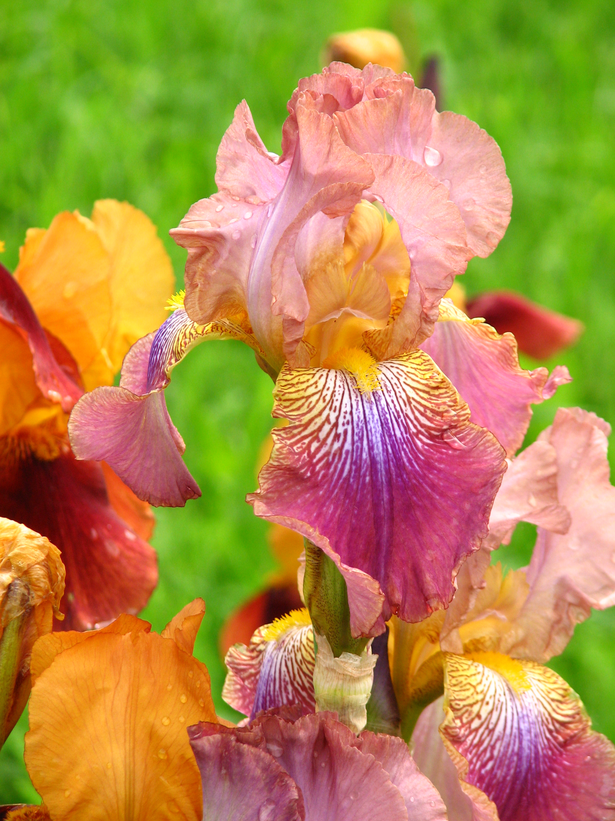 Iris 'Vladimir Vysotsky'. From the collection of the Botanical Garden of Moscow State University (main area on the Sparrow Hills).